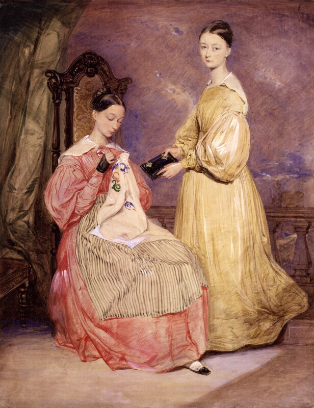 Portrait of Florence Nightingale and her sister, Frances Parthenope Nightingale, painted circa 1836